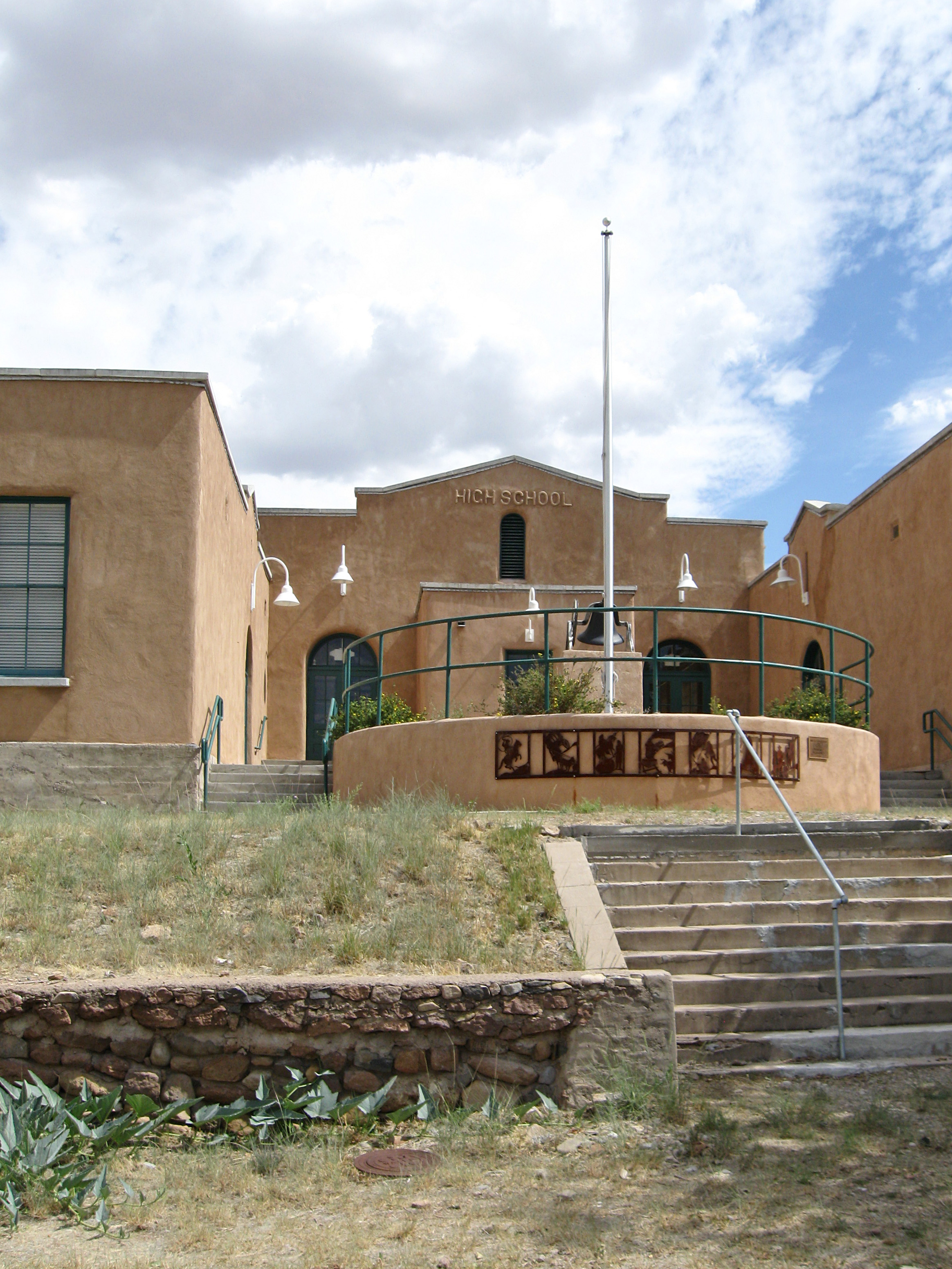 Hillsboro Community Center, a former High School building, located on Elenora Street and First Street in Hillsboro, New Mexico. It houses the Hillsboro Community Library. The building is on the National Register of Historic Places (NRIS Item No. 93000254).